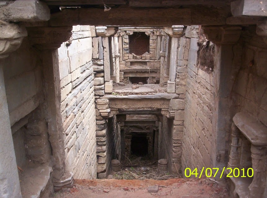 Historic Stepwell of Vadgam.